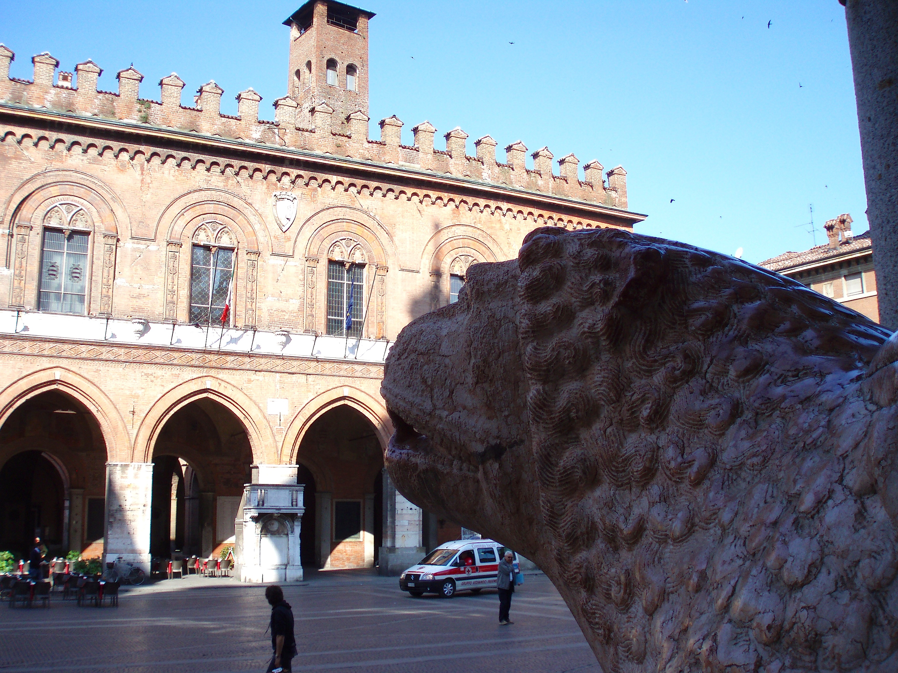 Cremona — lion sculpture at entrance to duomo with city hall in the background